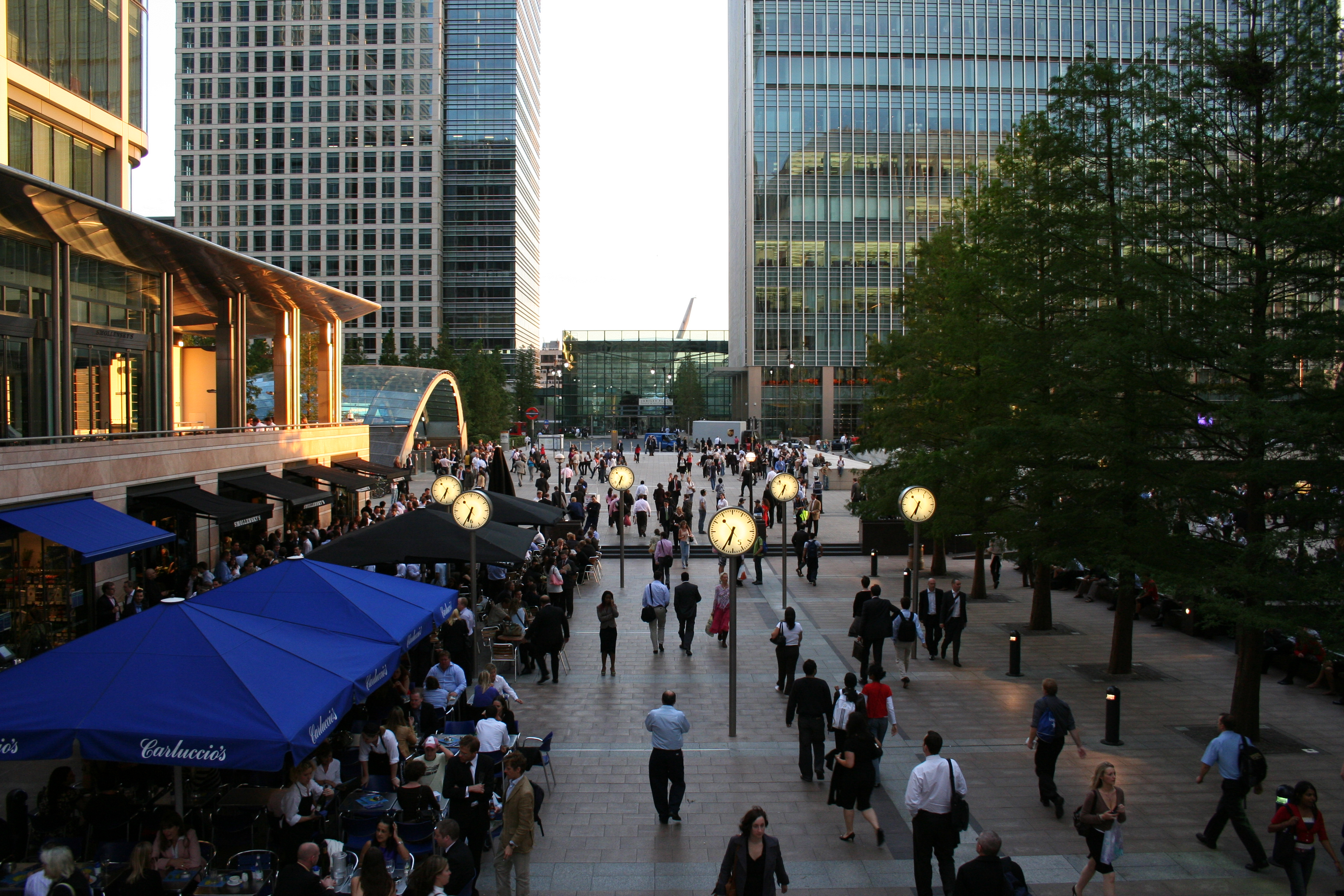 A view of Reuters Plaza at Canary Wharf, London